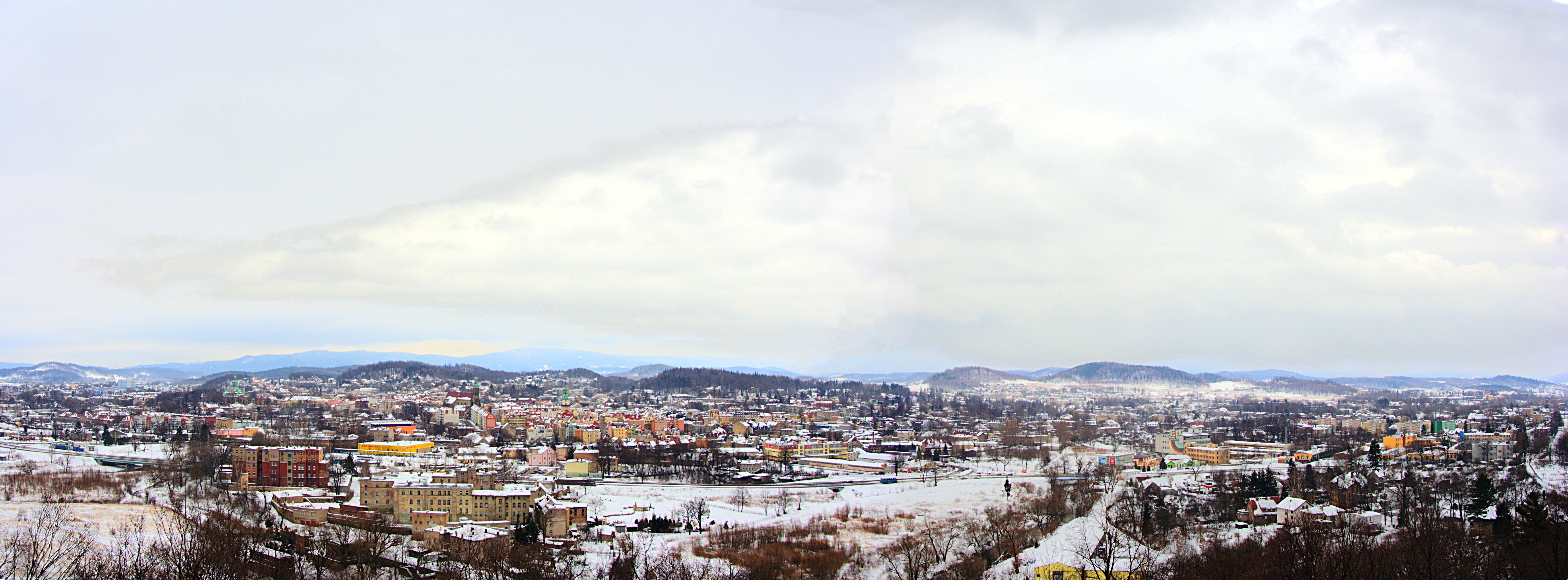 Jelenia Góra old town panorama, Lower Silesia, Poland. HDR.